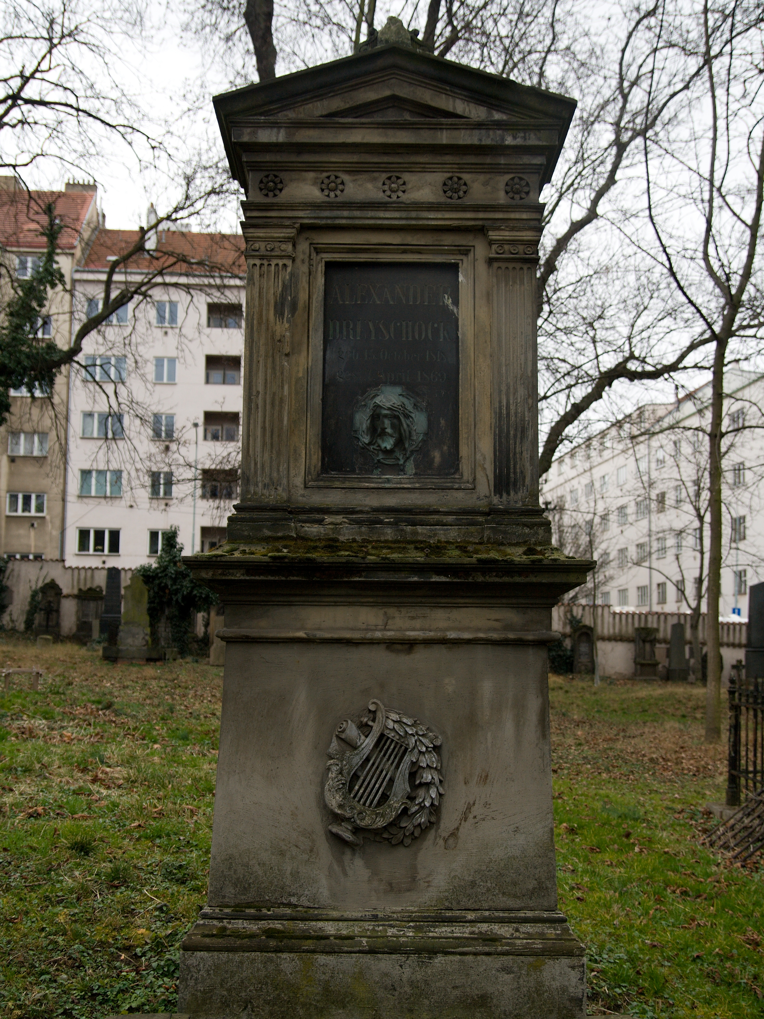 Olšanské hřbitovy Cemetery - Grave of Alexander Dreyschock